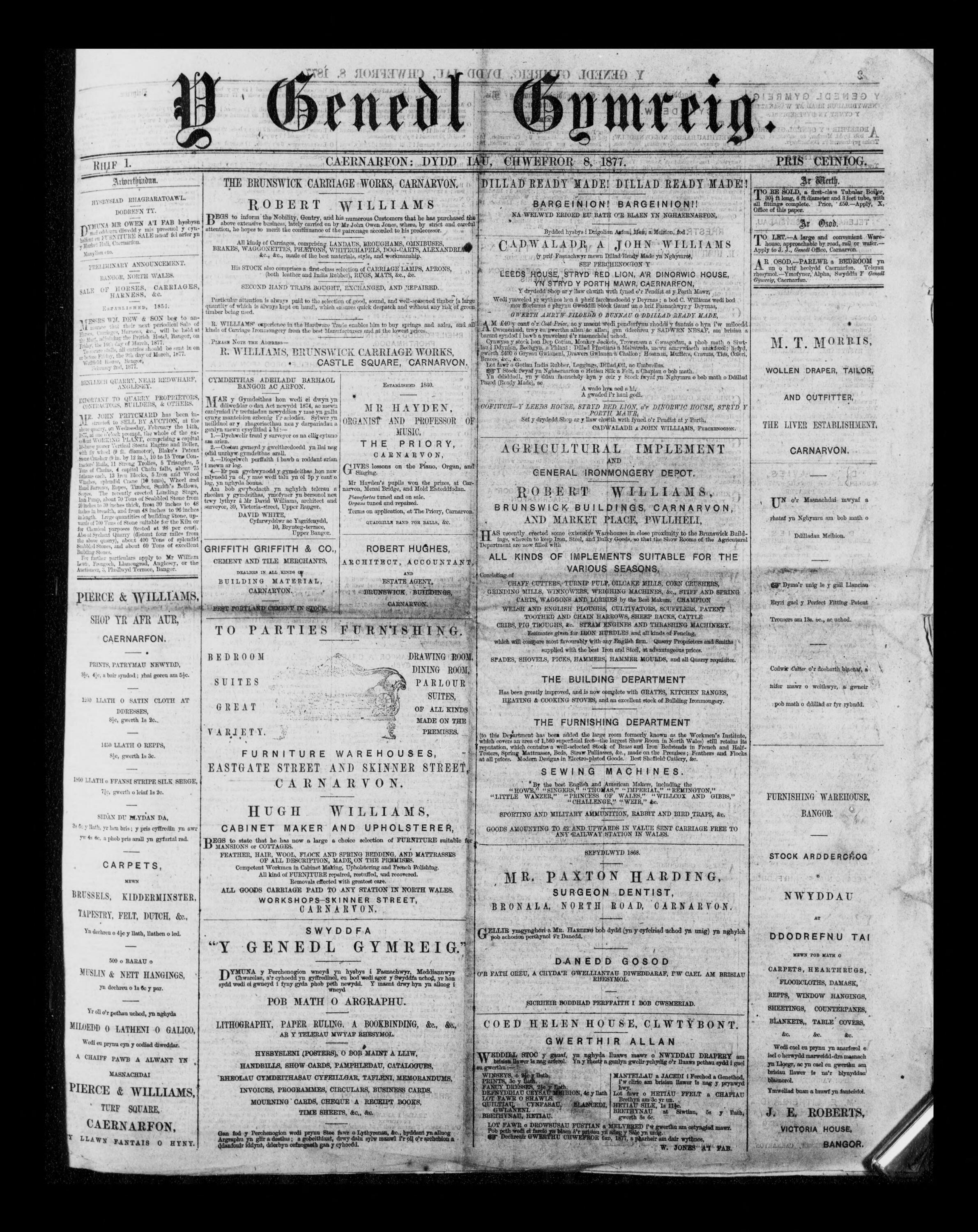 Front page of the earliest surviving copy of the Welsh newspaper Y Genedl GymreigCymraeg: Tudalen flaen y copi cynharaf sydd yn bodoli o'r papur newydd Cymraeg Y Genedl Gymreig